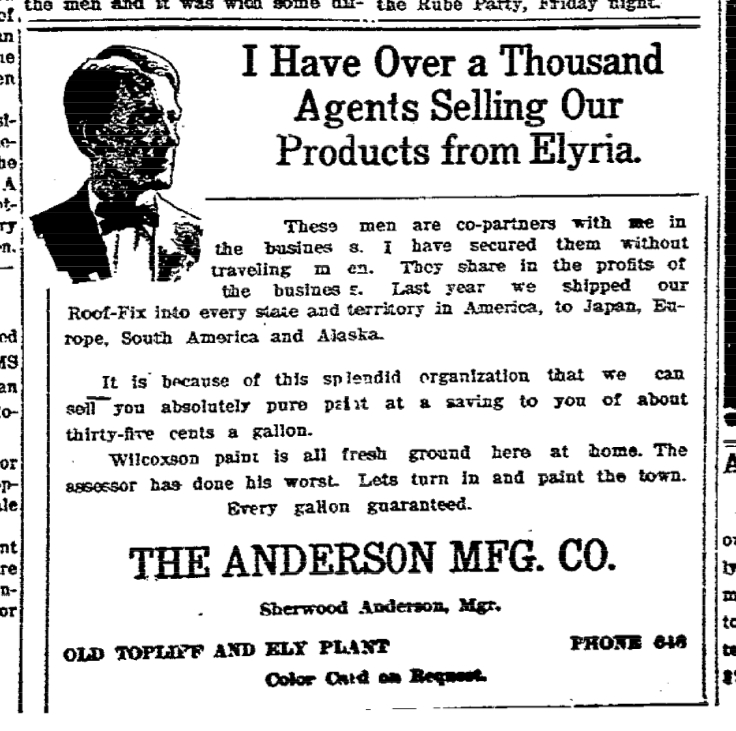 Advertisement for paint produced at the local Wilcoxson plant for the Anderson Manufacturing Company owned by Sherwood Anderson from 1907-1913, almost a decade before he became a well-known author.